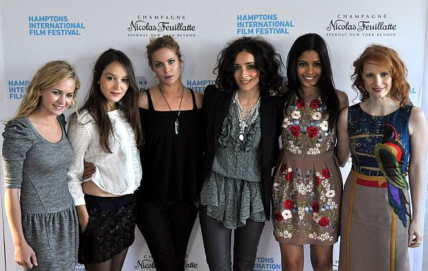 (L-R) Actresses Brittany Robertson, Anais Demoustier, Pihla Viitala, Zrinka Cvitesic, Freida Pinto and attend 18th Annual Hamptons International Film Festival Chairman's Reception on October 9, 2010 at the home of Stuart Suna in East Hampton, New York. (Photo © Nick Stepowyj)